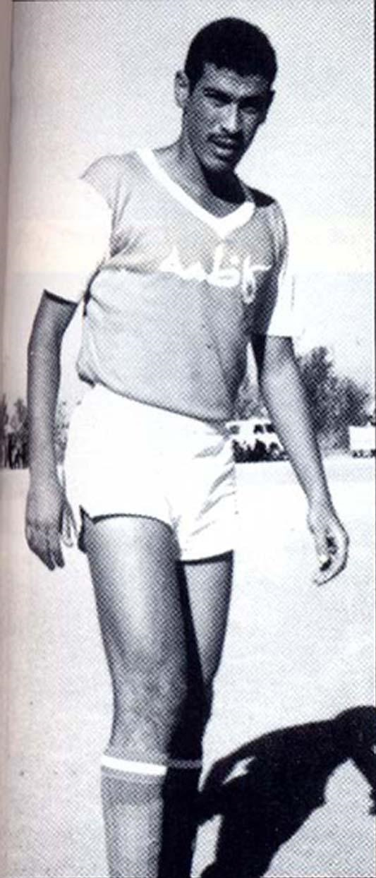 Hassan Shehata in Kazma FC 1970